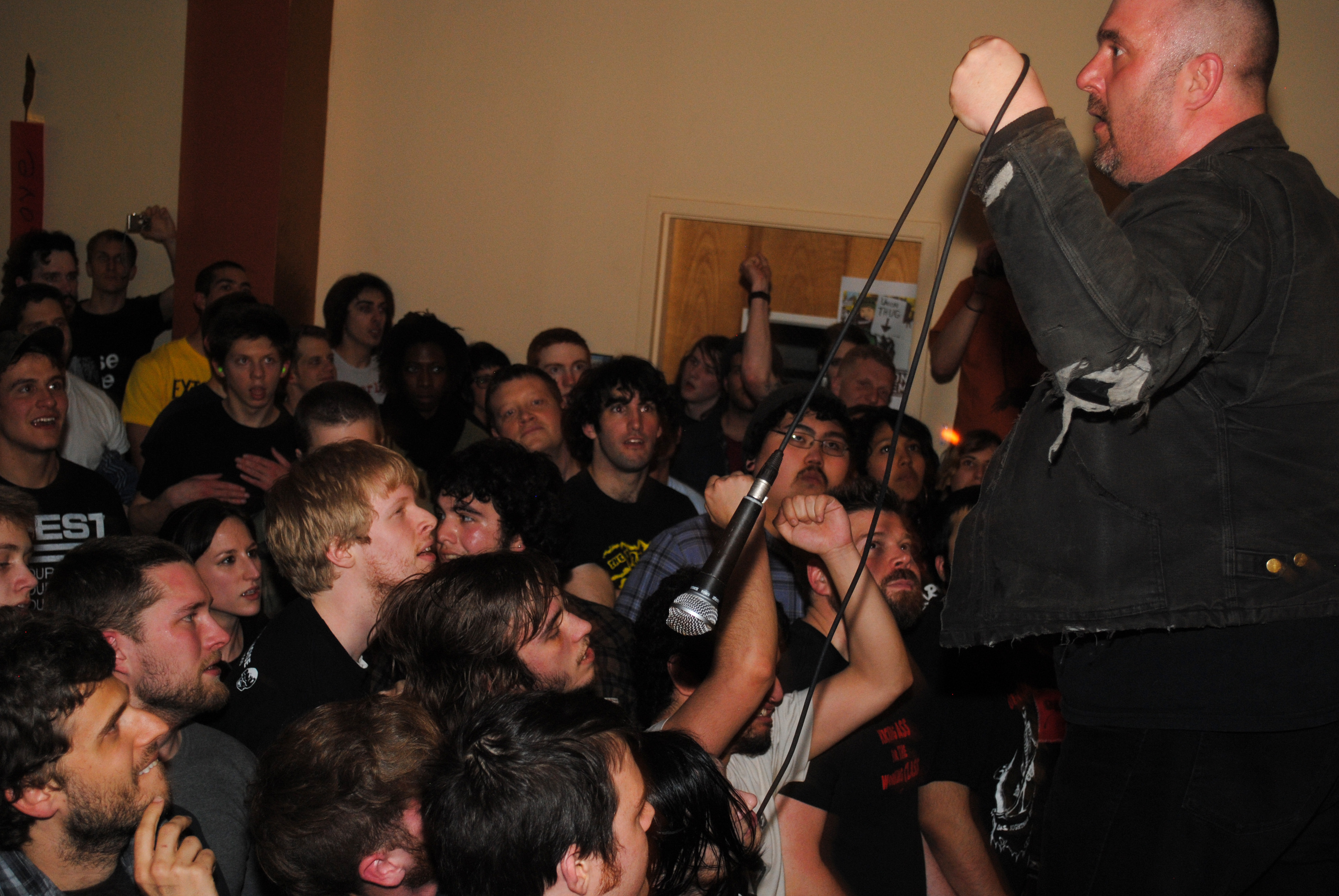 Published on